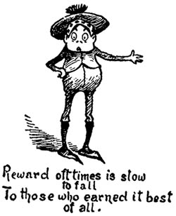 Image from Brownies Around the World